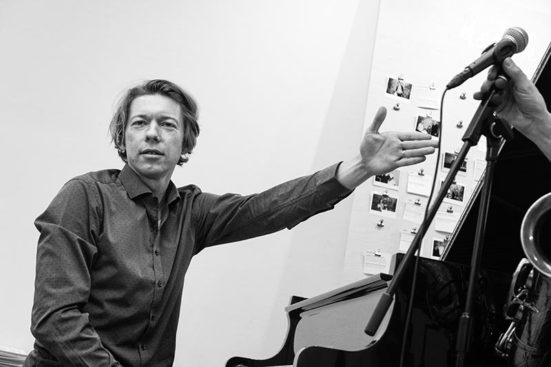 Søren Kjærgaard playing in Aarhus, Denmark 2017 with Niels Vincentz and Billy Hart